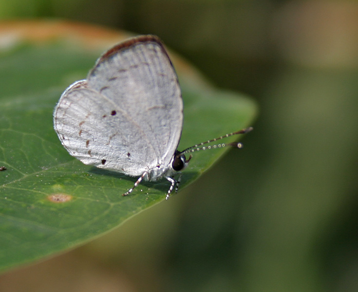 Quaker Neopithecops zalmora in Kolkata, West Bengal, India.